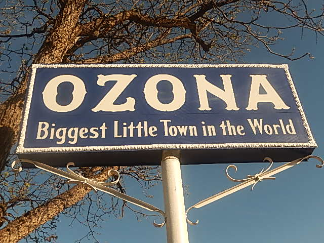 I took photo of Ozona, TX sign, with Nikon camera.